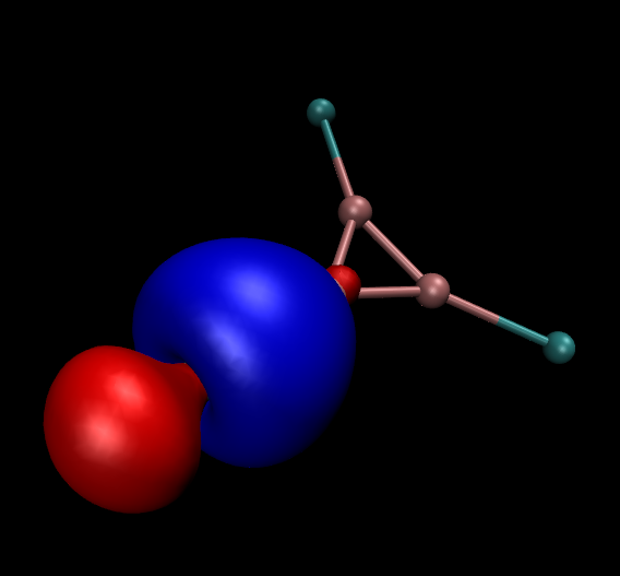 This bond is highly enriched in p character. Its high coefficient on Ar is indicative of sigma donicity from Ar to B. The calculation was performed at the B3LYP/def2-QZVPPD level of theory.